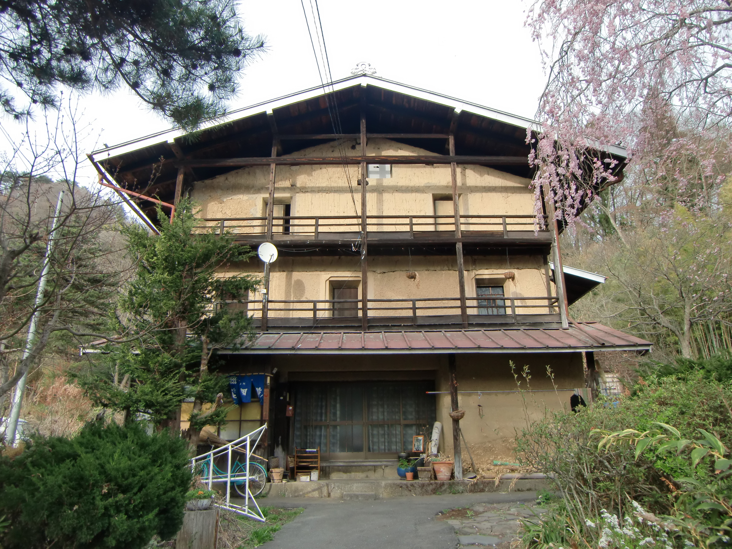 YUMOTO-ke house in Akaiwa, Nakanojo-town(old Kuni-vill), Gunma-pref, JAPAN. Takano Chōei lived in 1st floor of this house. Akaiwa settlement registered as a Important Preservation Districts for Groups of Historic Buildings in Japan.